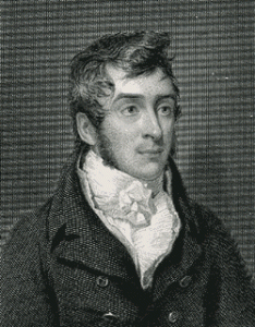 Charles Alfred Stothard was the eldest surviving son of the artists and illustrator Thomas Stothard RA and was born in London on 5th July 1786.